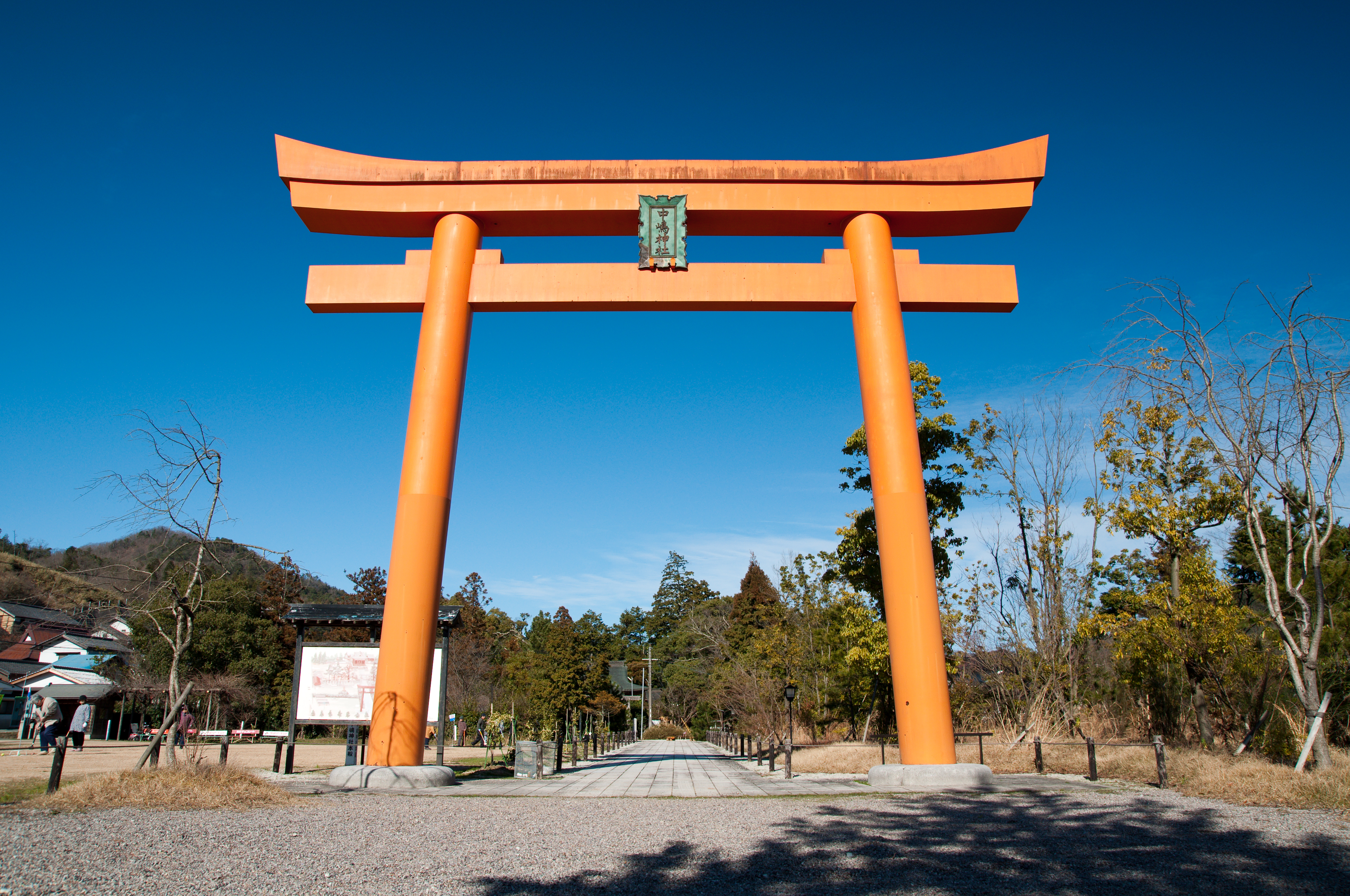 This is a torii of the Nakashima Jinjya.